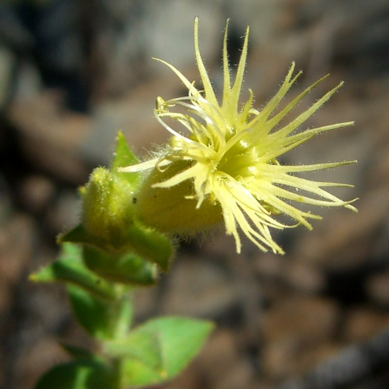 Silene parishii. At Strawberry Peak, San Gabriel Mountains, California, USA